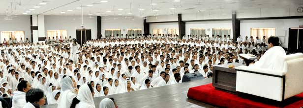 This is a photograph depicting portion of spiritual activities at Shrimad Rajchandra Mission Dharampur